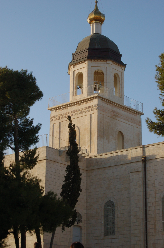 Abraham's Oak Holy Trinity Monastery (Russian: Троицкий монастырь и храм св. Праотцев в Хевроне) is a Russian Orthodox monastery in Hebron founded in XIX century at the site of the ancient Oak of Mamre.